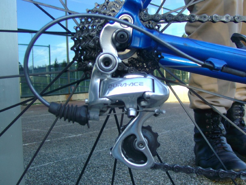 Dura-Ace 10 speed Rear Derailleur